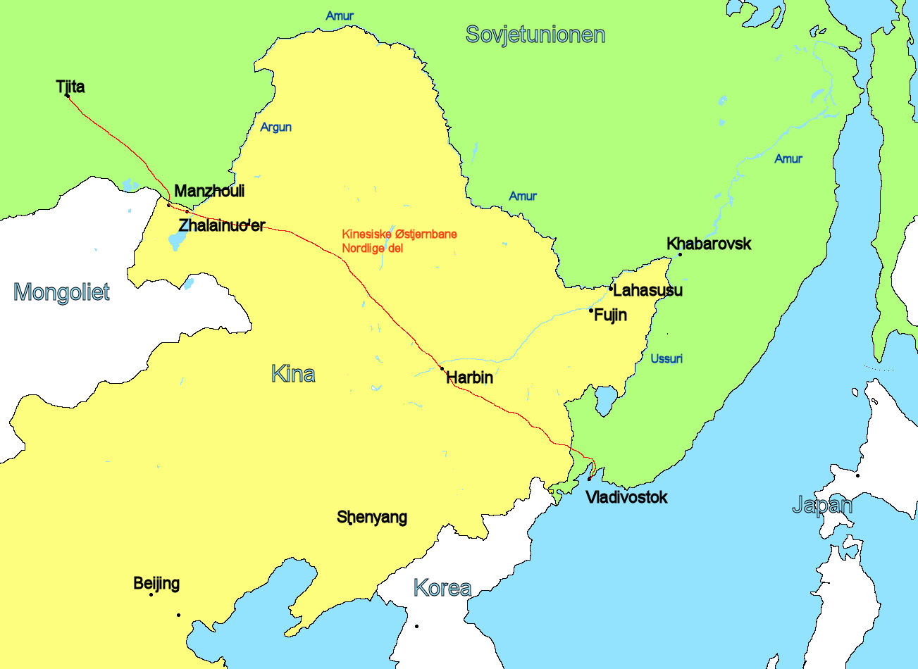 Map of Manchuria and Soviet Far East with places of importance Sino-Soviet cinflict 1929